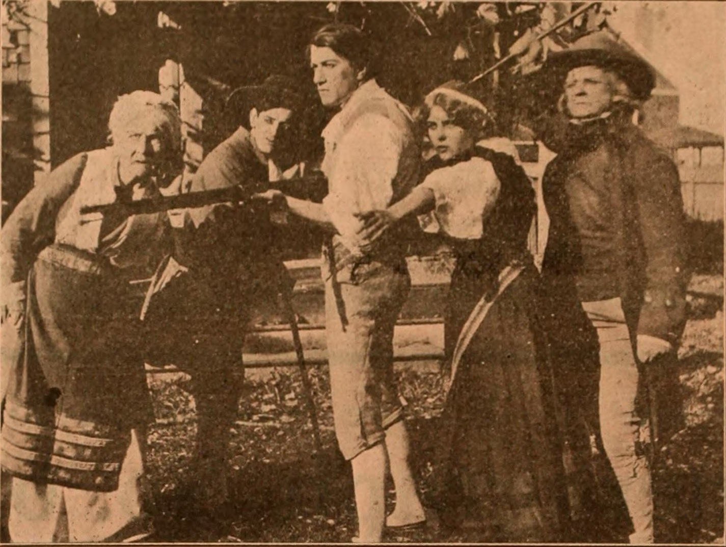 A film still from John Halifax, Gentleman from the Thanhouser Company. Released on December 2, 1910.